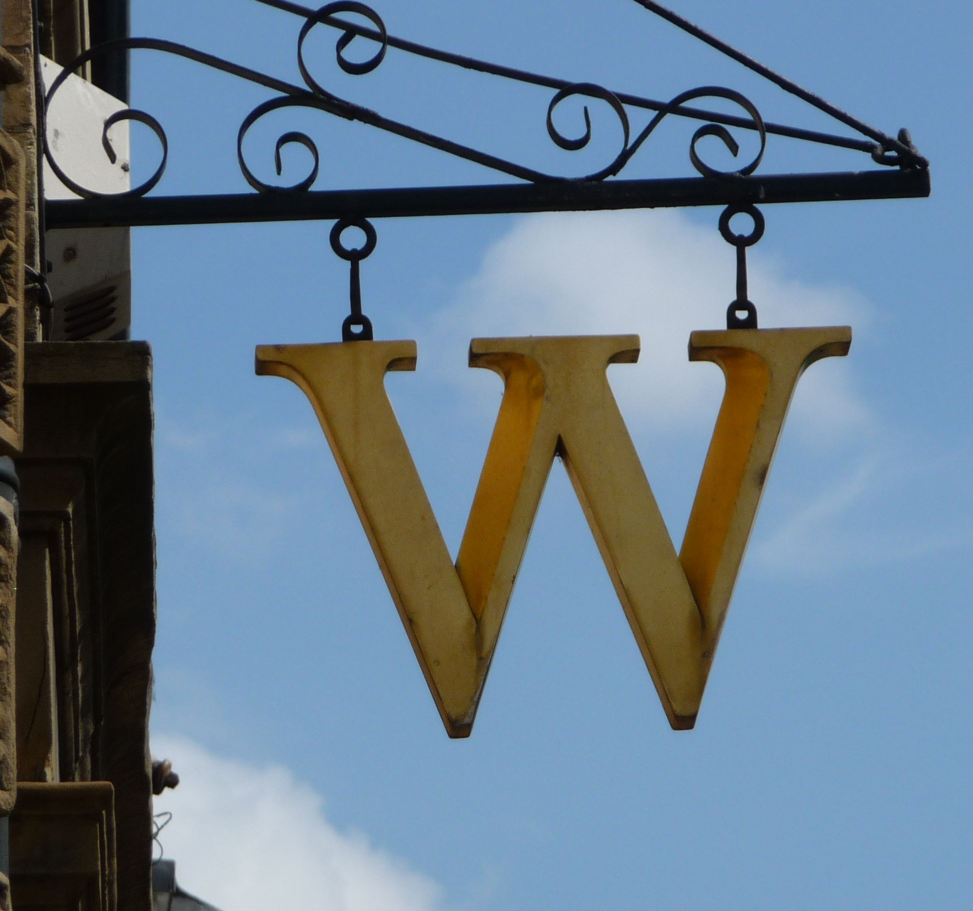 Waterstones